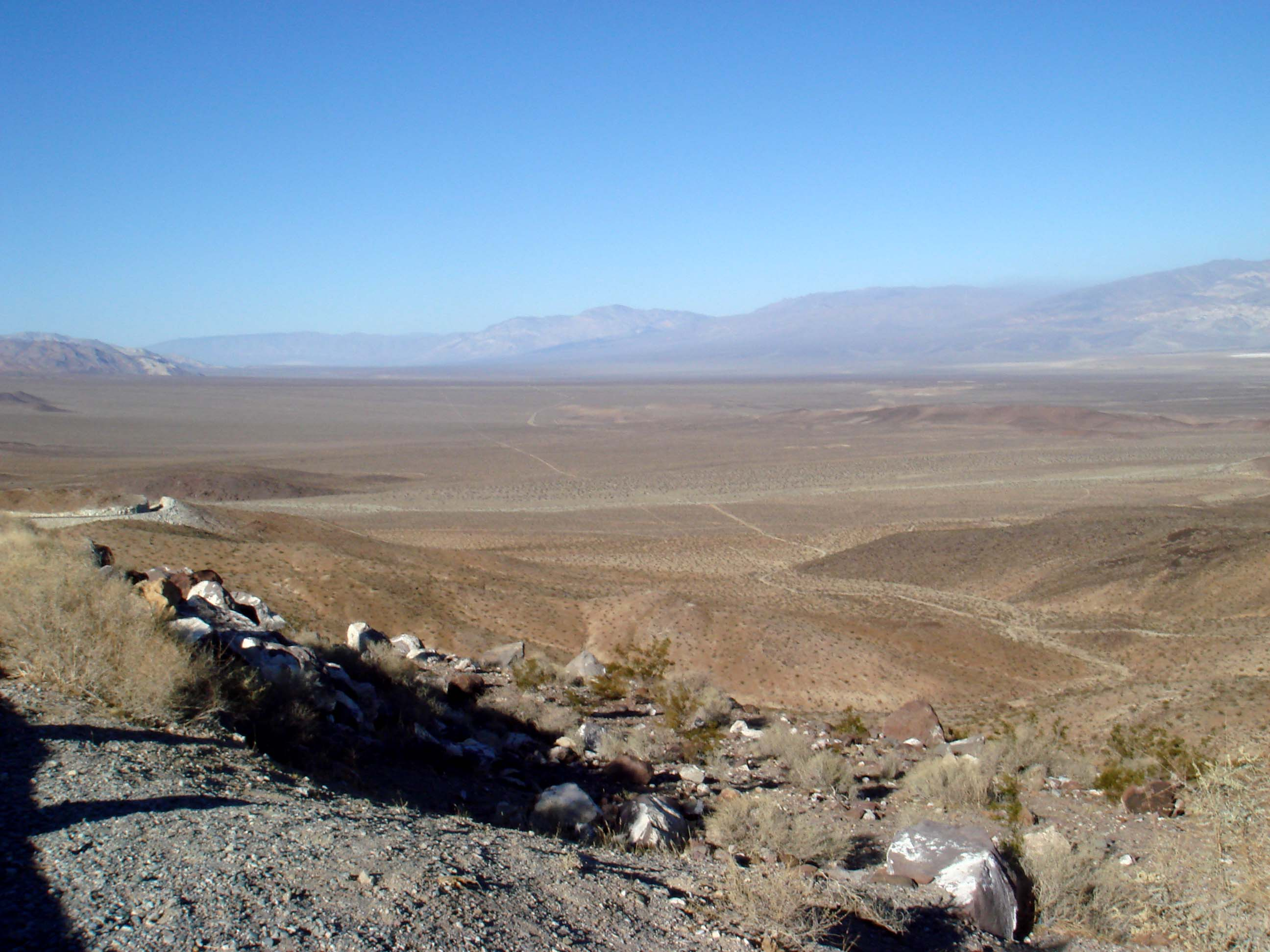 Panamint Valley from southern tip, facing north.